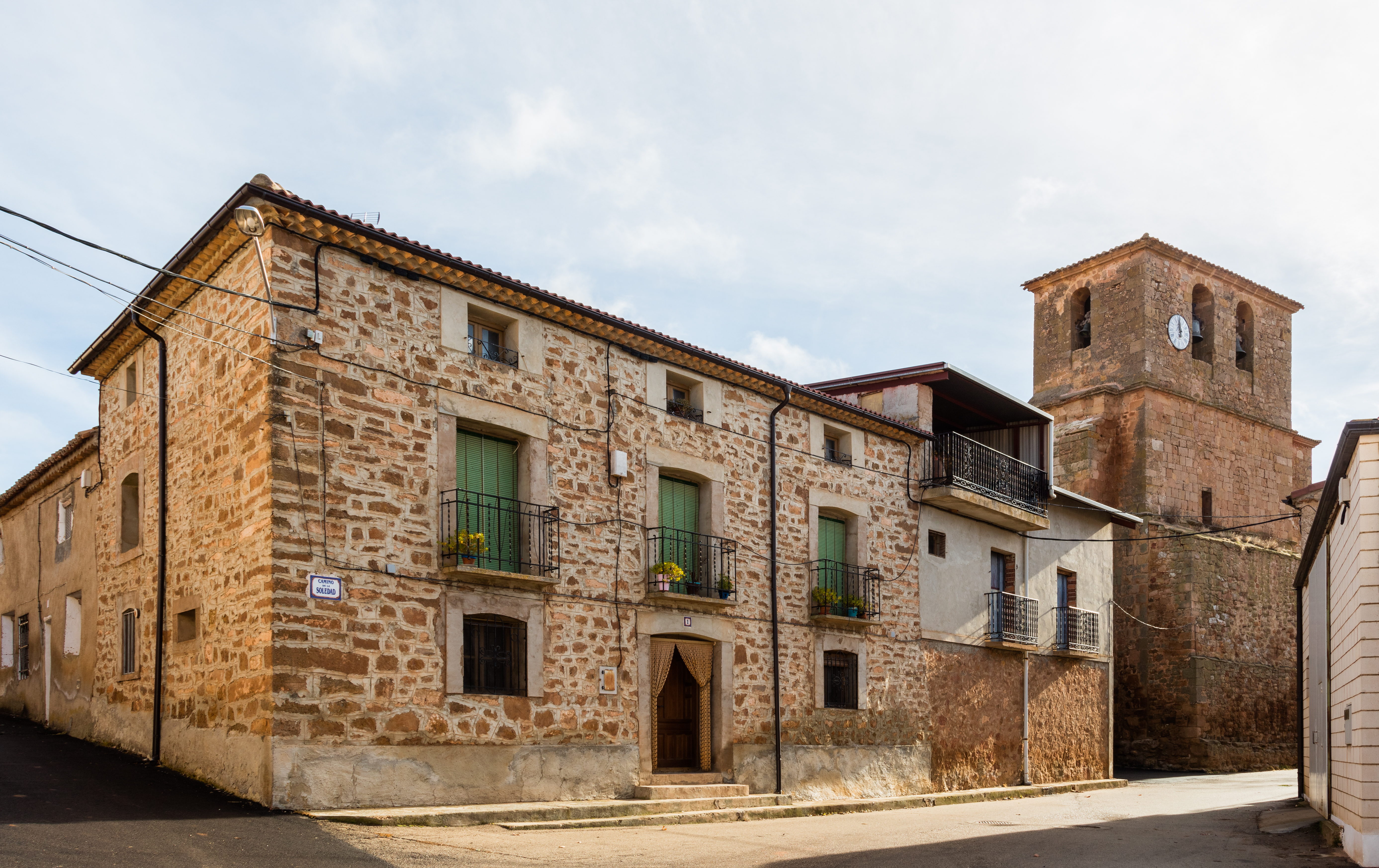 Almazul, province of Soria, Castile and León, Spain.